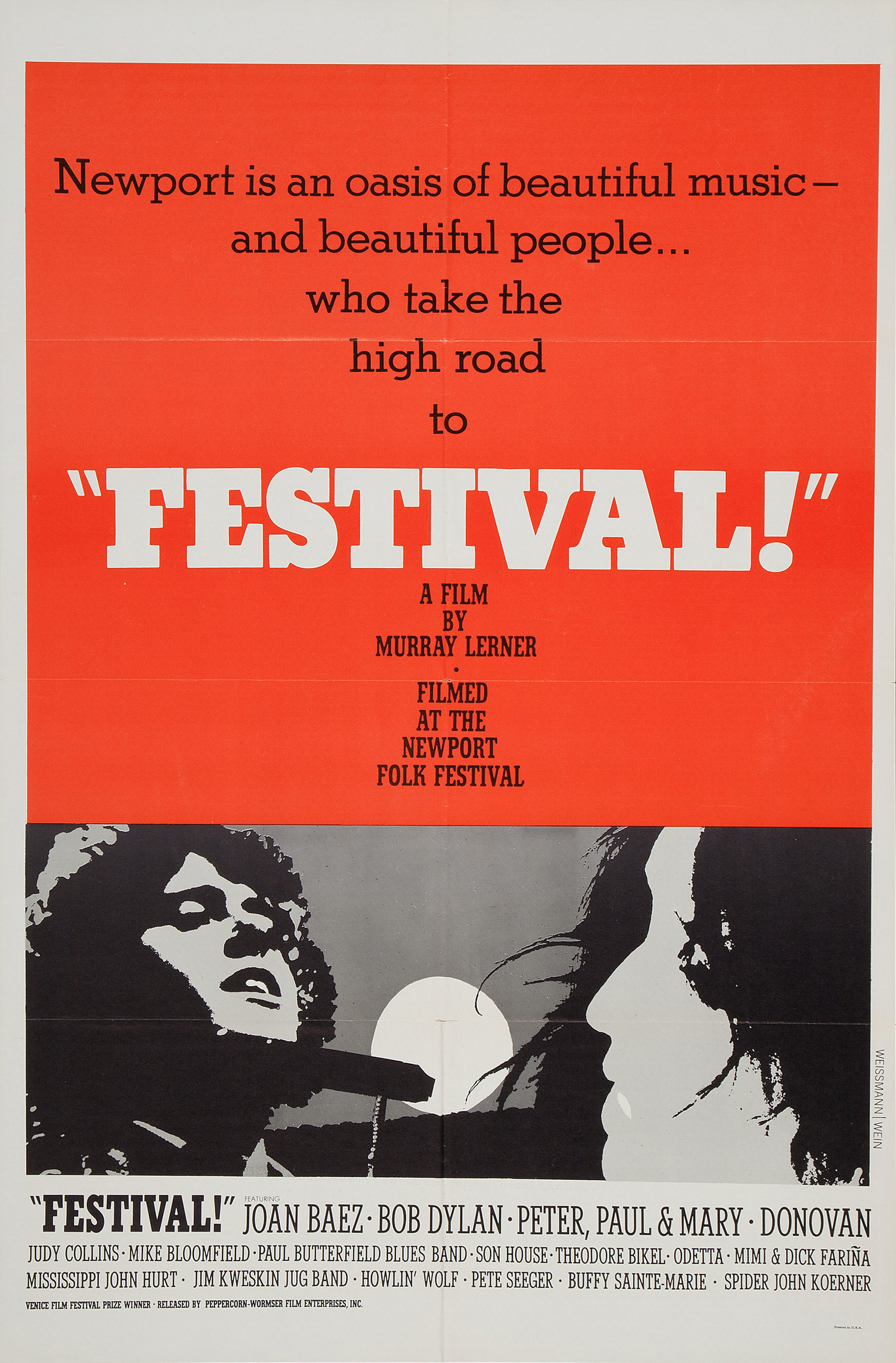 Theatrical release poster for the 1967 documentary film Festival, about the Newport Folk Festival from 1963–1965. Depicts the American musicians Donovan and Joan Baez.